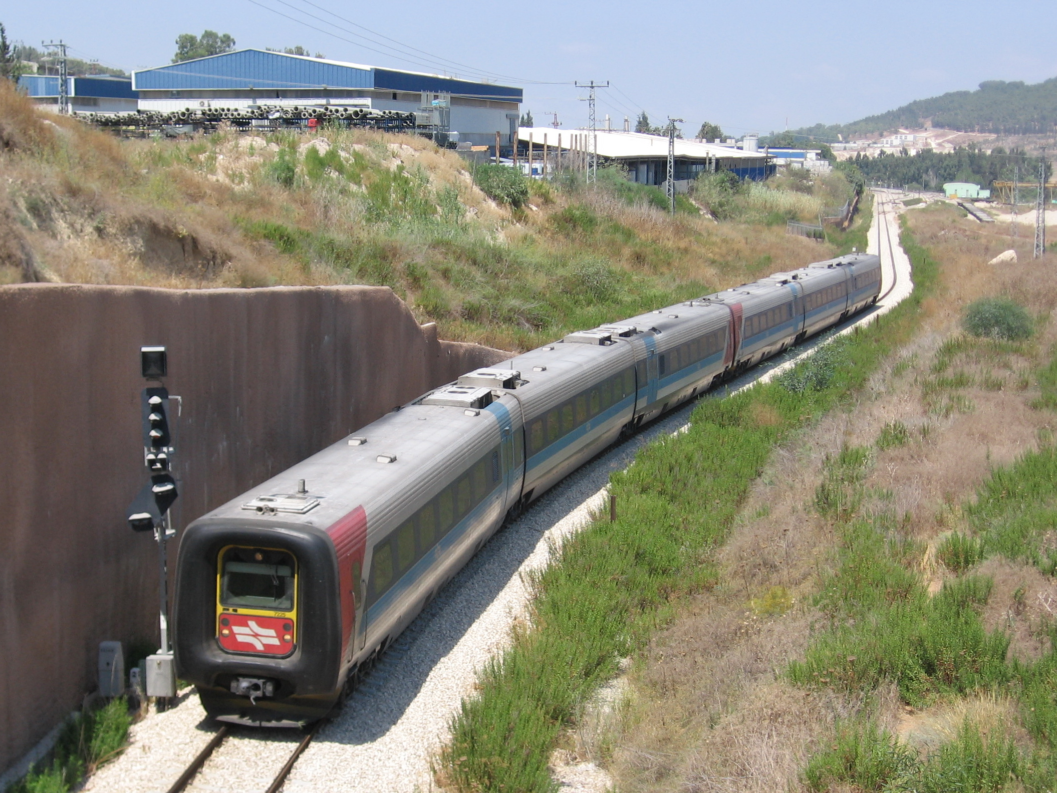 An Israel Railways IC3 train from Bet-Shemesh to Jerusalem, passing by the Bet-Shemesh industrial zone.